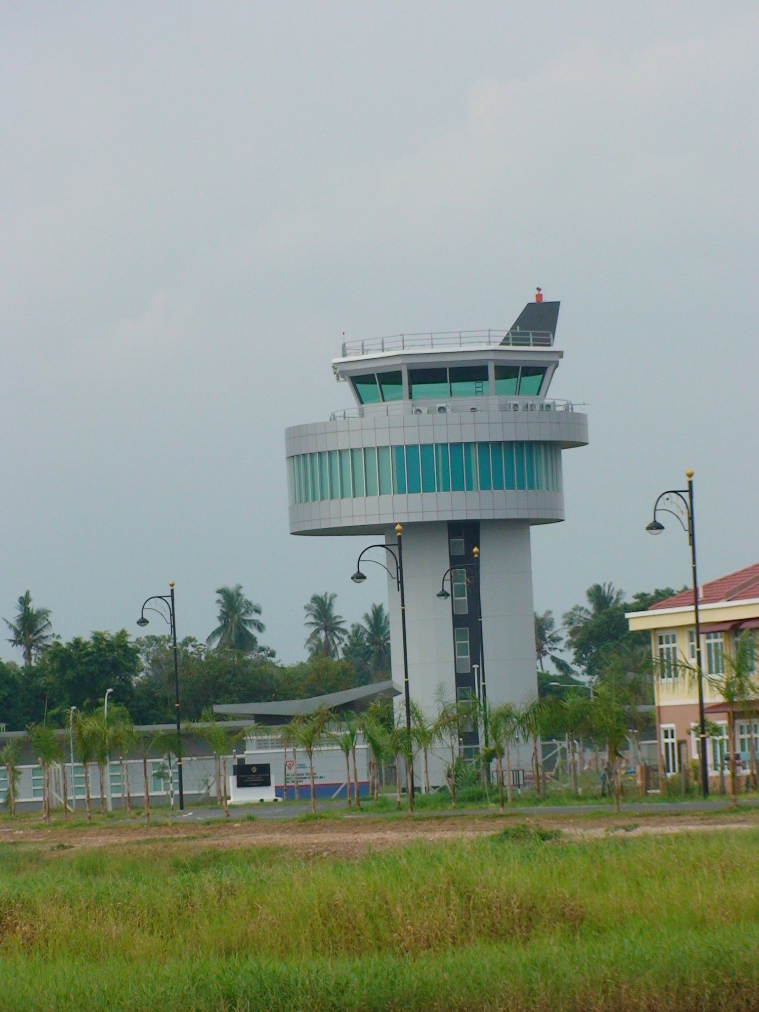 New malacca Airport Control Tower